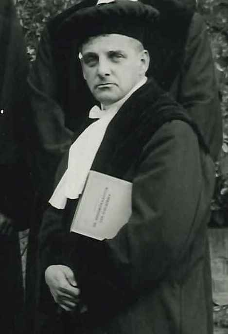 Carl Wilhelm de Vries (1882-1967) in 1928